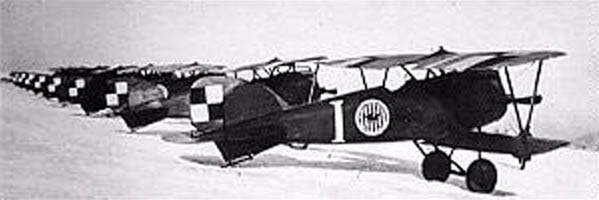 Albatros D.III (Oeffag) series 253 fighters of the Kościuszko's escadrille at Lewandówka airfield in the winter of 1919-1920; the plane marked with a large I sign was flown by the escadrille's commanding officer, Cedric Faunt-le-Royen:Kościuszko Squadron, the first is commander's (Cederic Fauntleroy) plane, 1919-1920. Published in a variety of sources, among them in Jerzy Pawlak (1989) Polskie eskadry w latach 1918-1939, Warsaw: Wydawnictwa Komunikacji i Łączności, pp. 60-69 ISBN 8320607604